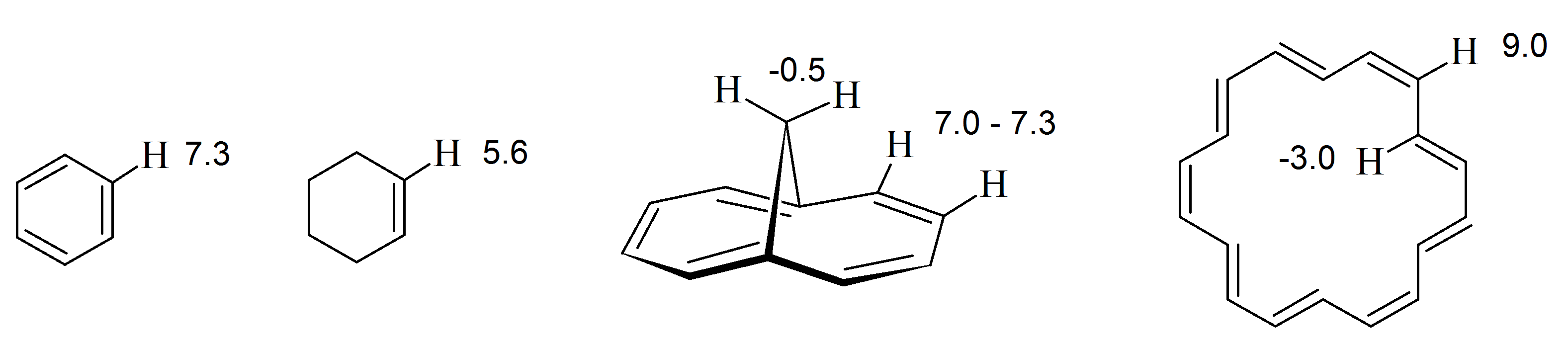 Proton resonances of benzene, cyclohexene, methano[10]annulene, [18]annulene